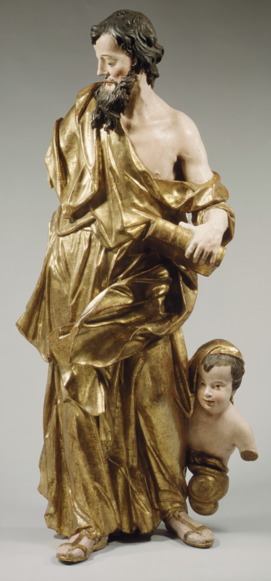 Southern German or Austrian; Statue; Sculpture